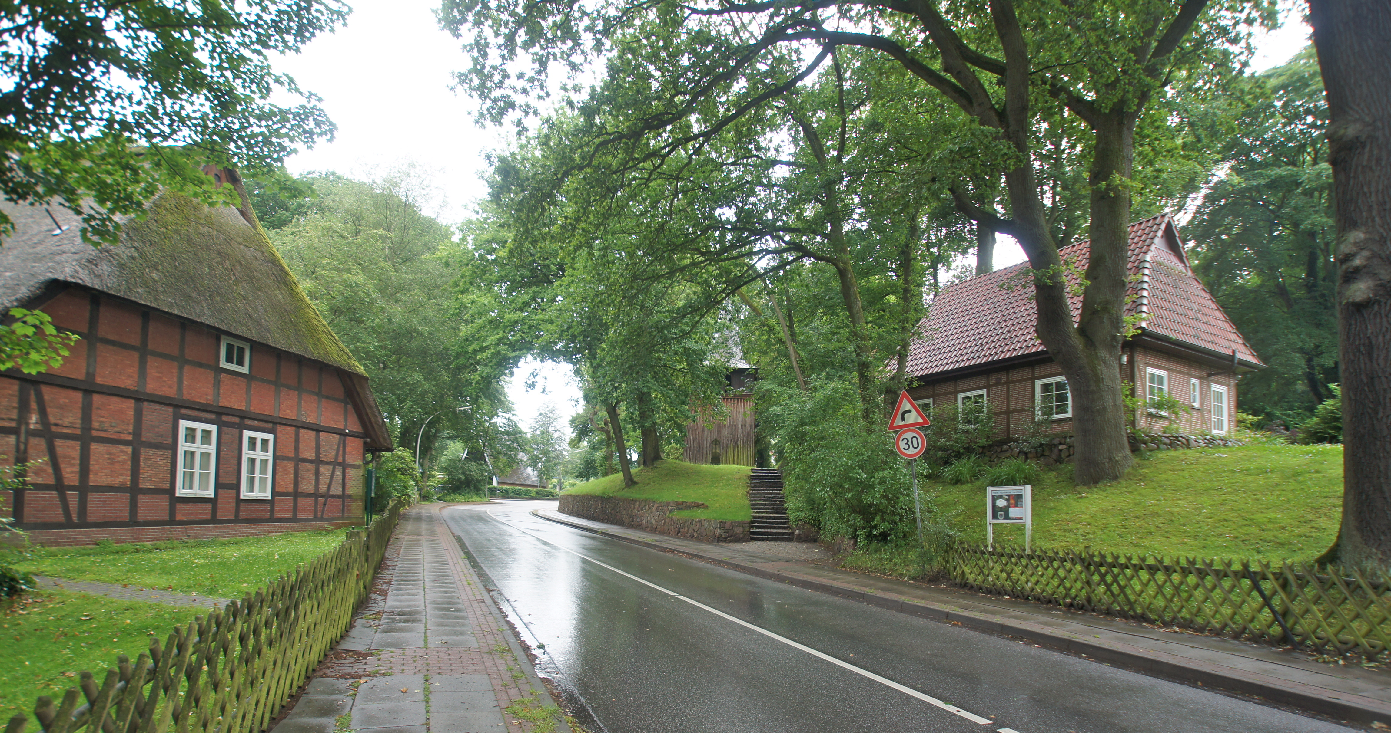 Hamburg (Silstorf), Germany: Panorama